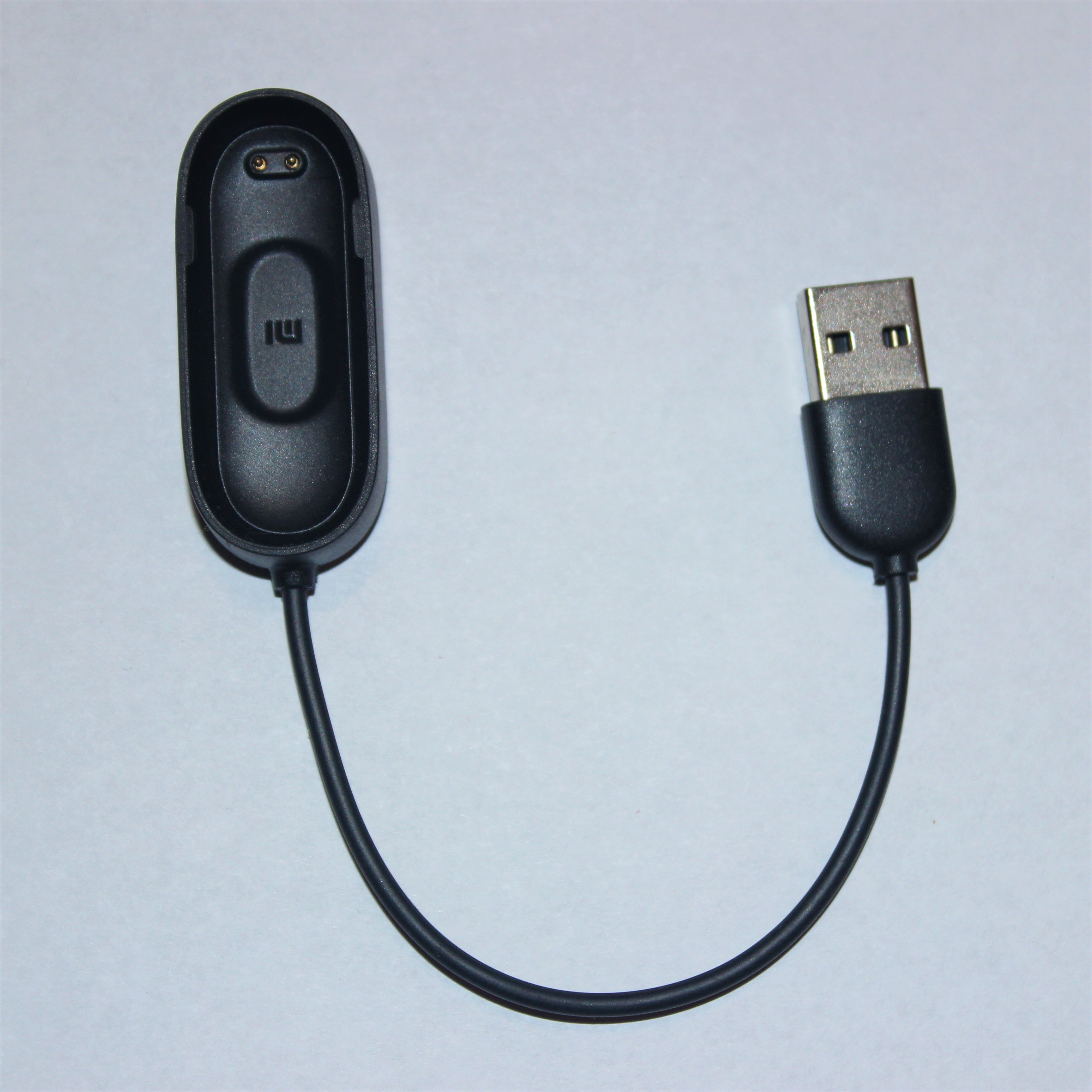 Charging dock cable for Xiaomi Mi Band 4